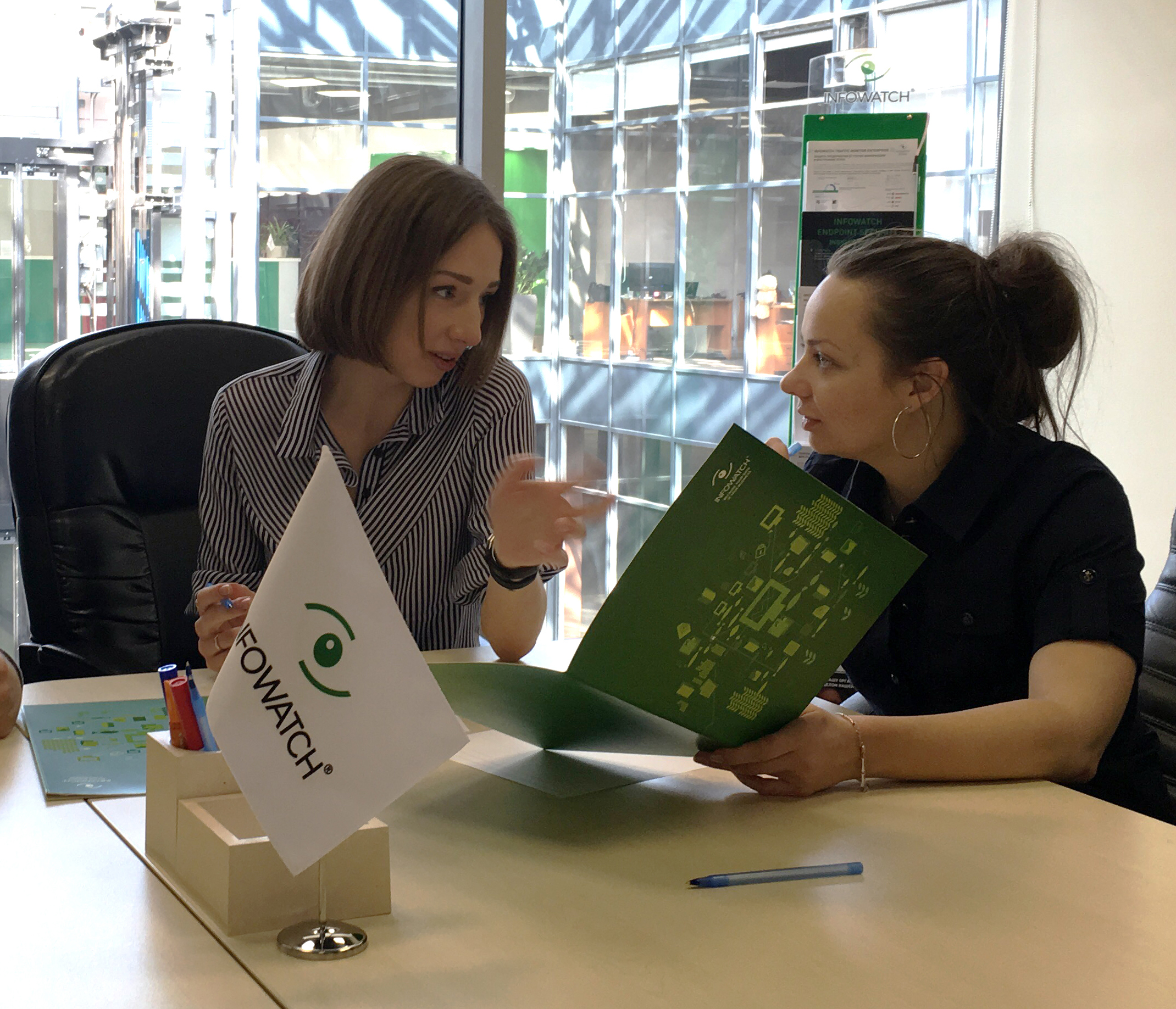 Office of 'InfoWatch' group of companies owned and lead by Natalya Kaspersky. Vereyskaya Plaza in Moscow, Russia.